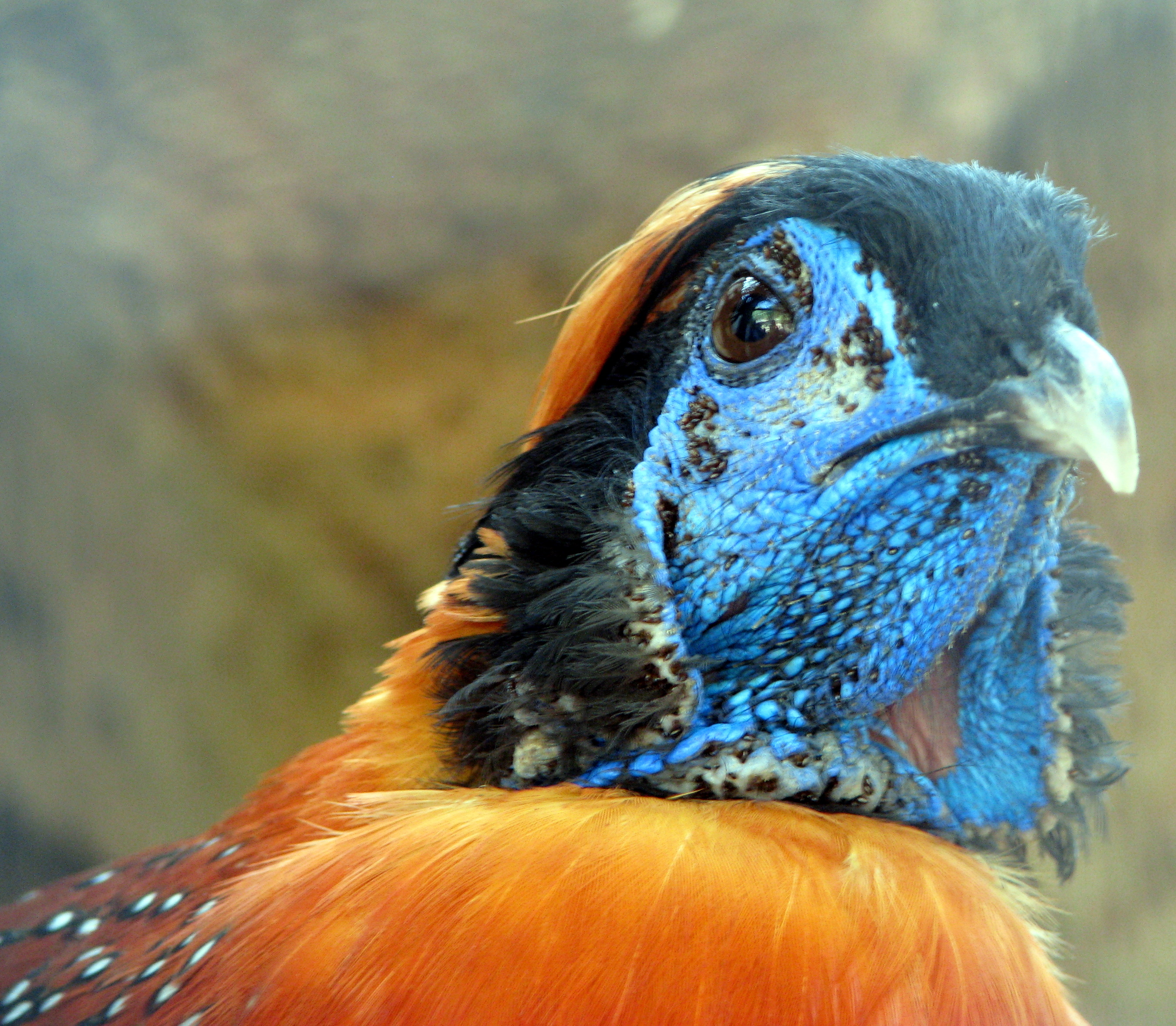 Temminck's Tragopan (Tragopan temminckii)